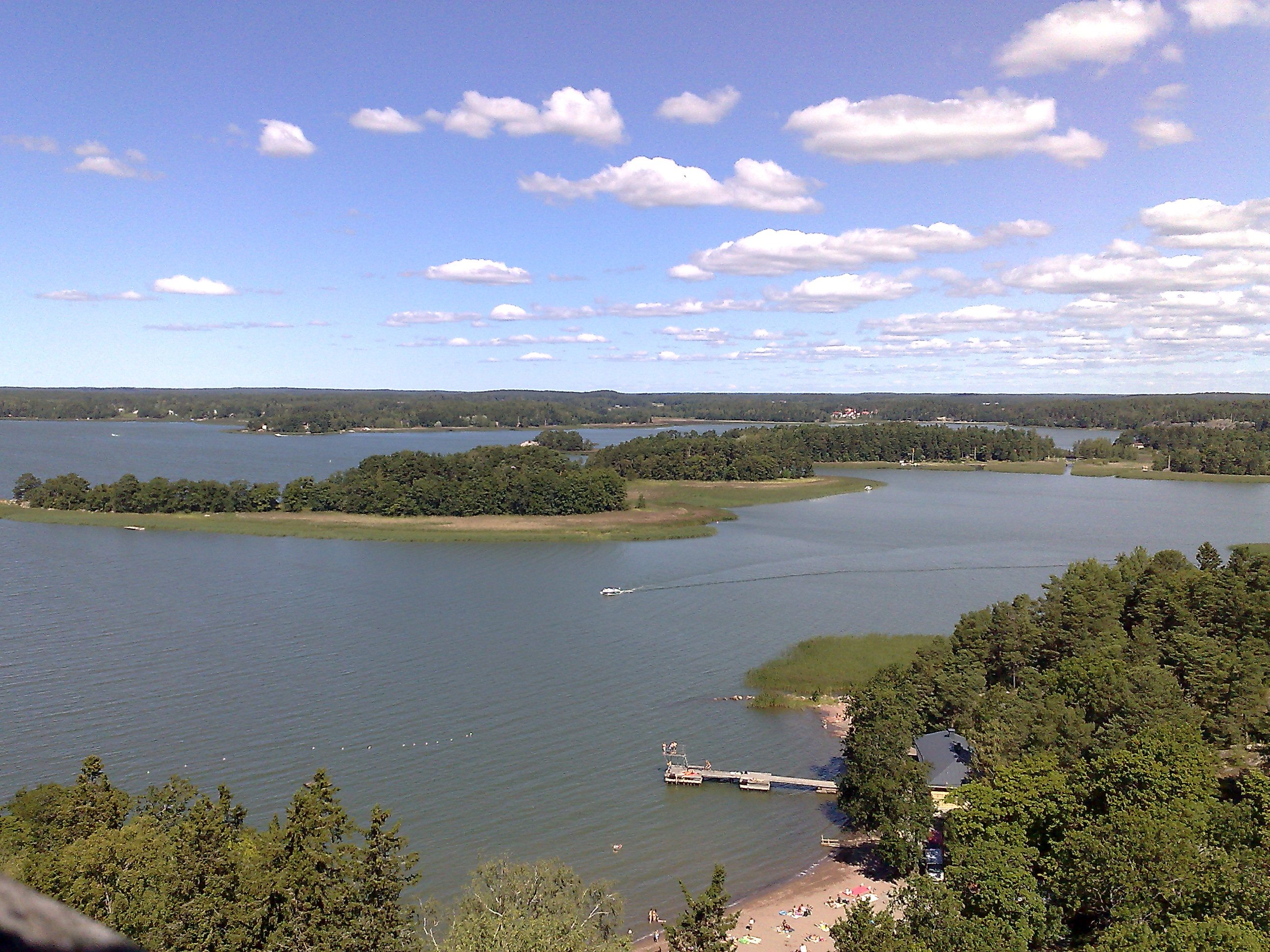 View from Church of Naantali in Naantali, Finland. Island of Jakoluoto and Hiippa. In the foreground of the picture is Nunnalahti Beach.